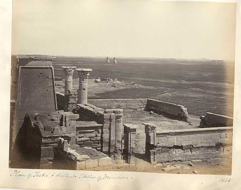 Francis Frith (1822-1898), "Plain of Thebes & distant Statues of Memnon". Catalogue number: 1868.